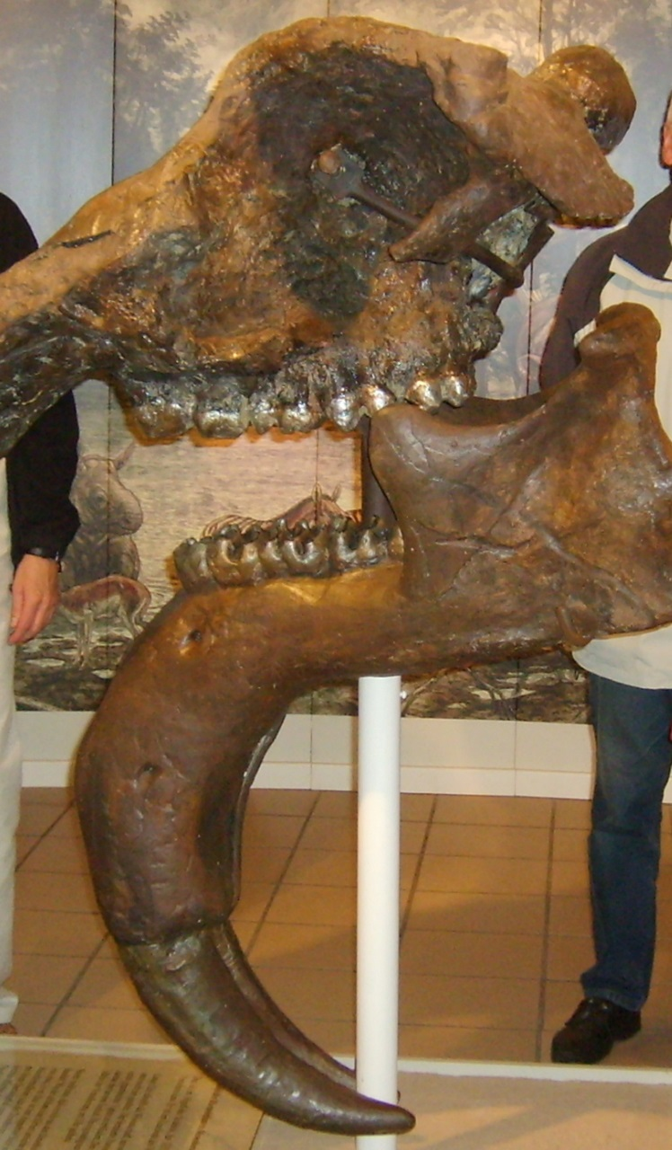 Deinotherium giganteum, copy of the skull found in the Dinotherium sands (Miocene) of Eppelsheim near Mainz, Germany, in 1835, on display at the Eppelsheim Dinotherium Museum